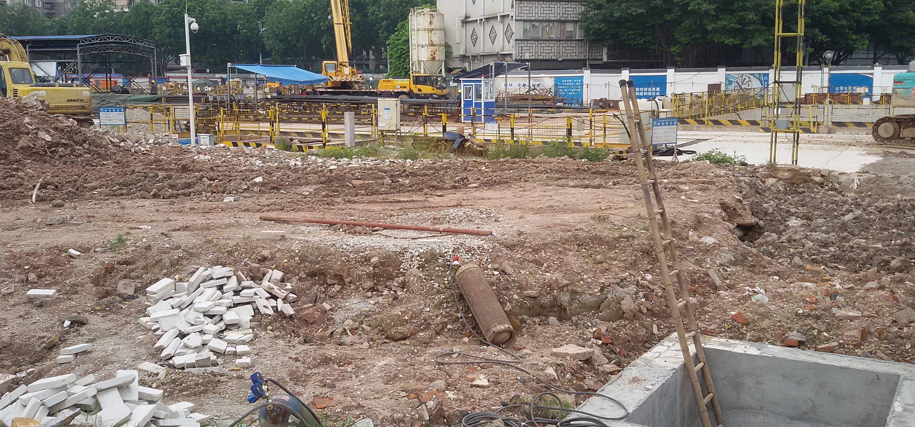 Chen Clan Academy Station's Construction Site for Line 8 in Guangzhou Metro at Jul. 12th., 2017. 粵語: 廣州地鐵8號綫陳家祠站嘅工地（2017年7月12號）